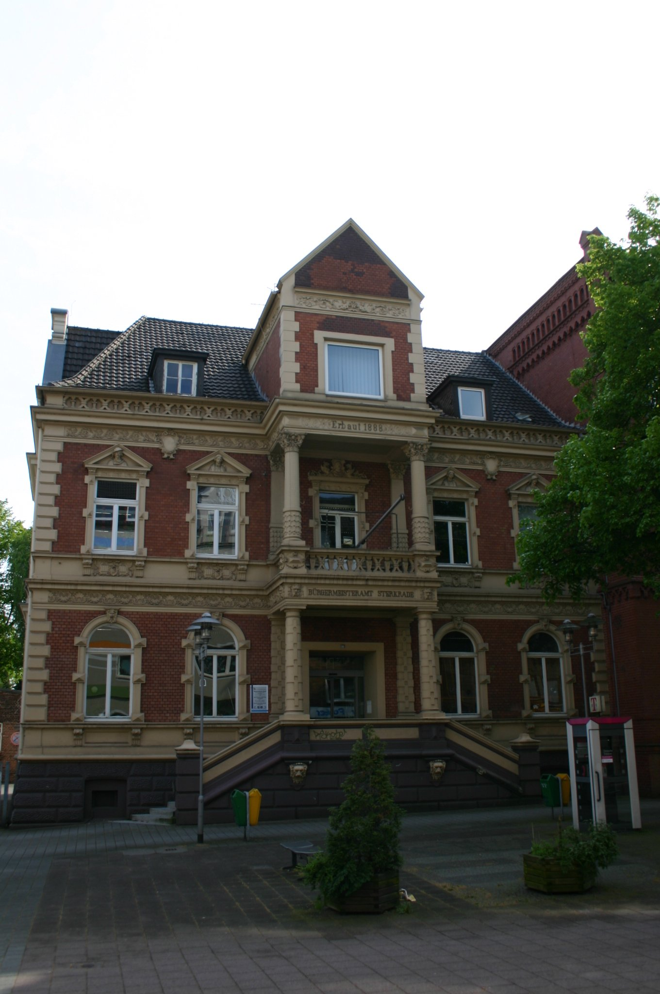 Former Mayor's Office of Sterkrade (district of Oberhausen, Germany)